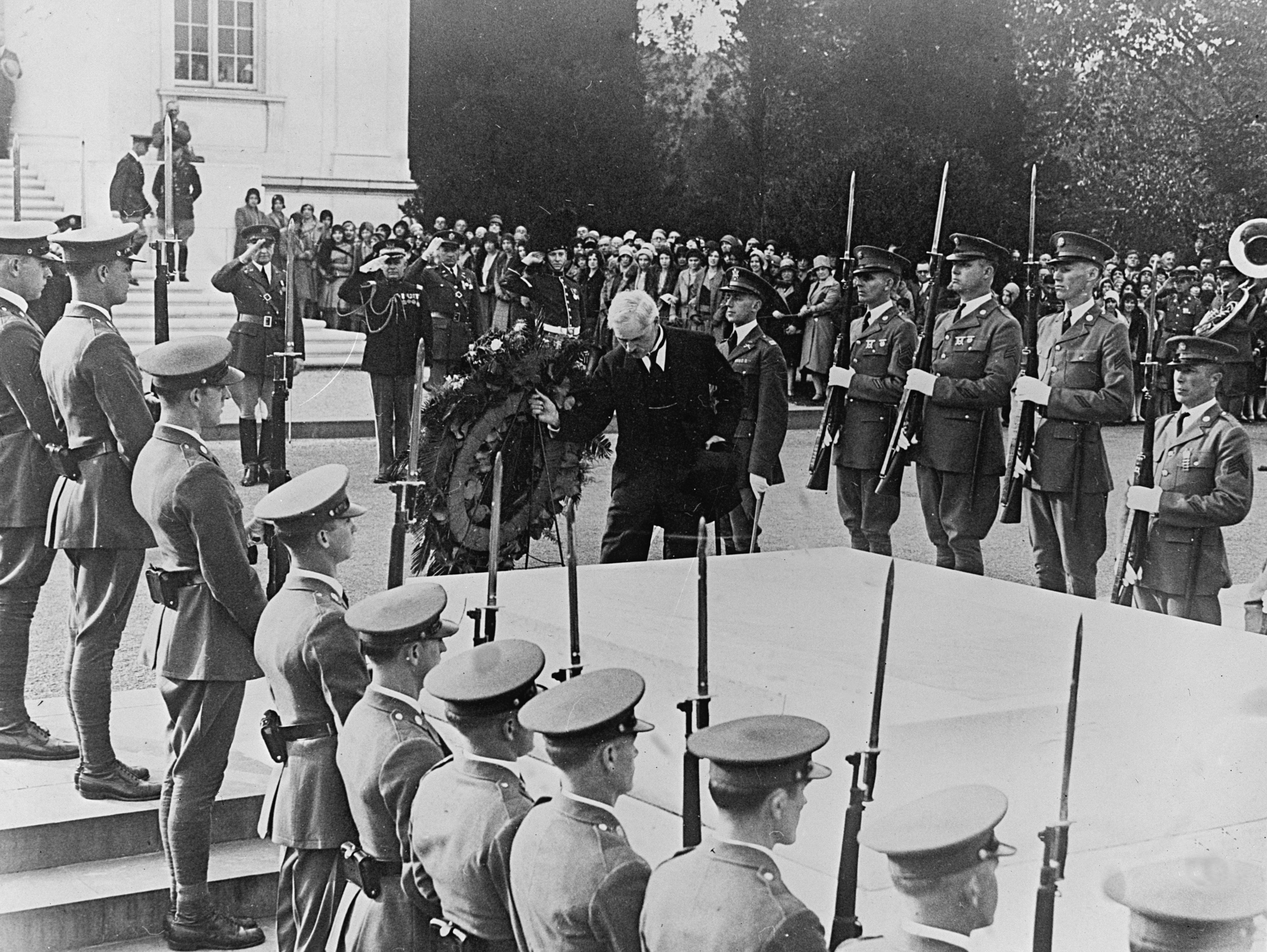 MacDonald at Tomb of Unknown Soldier, 10/9/29